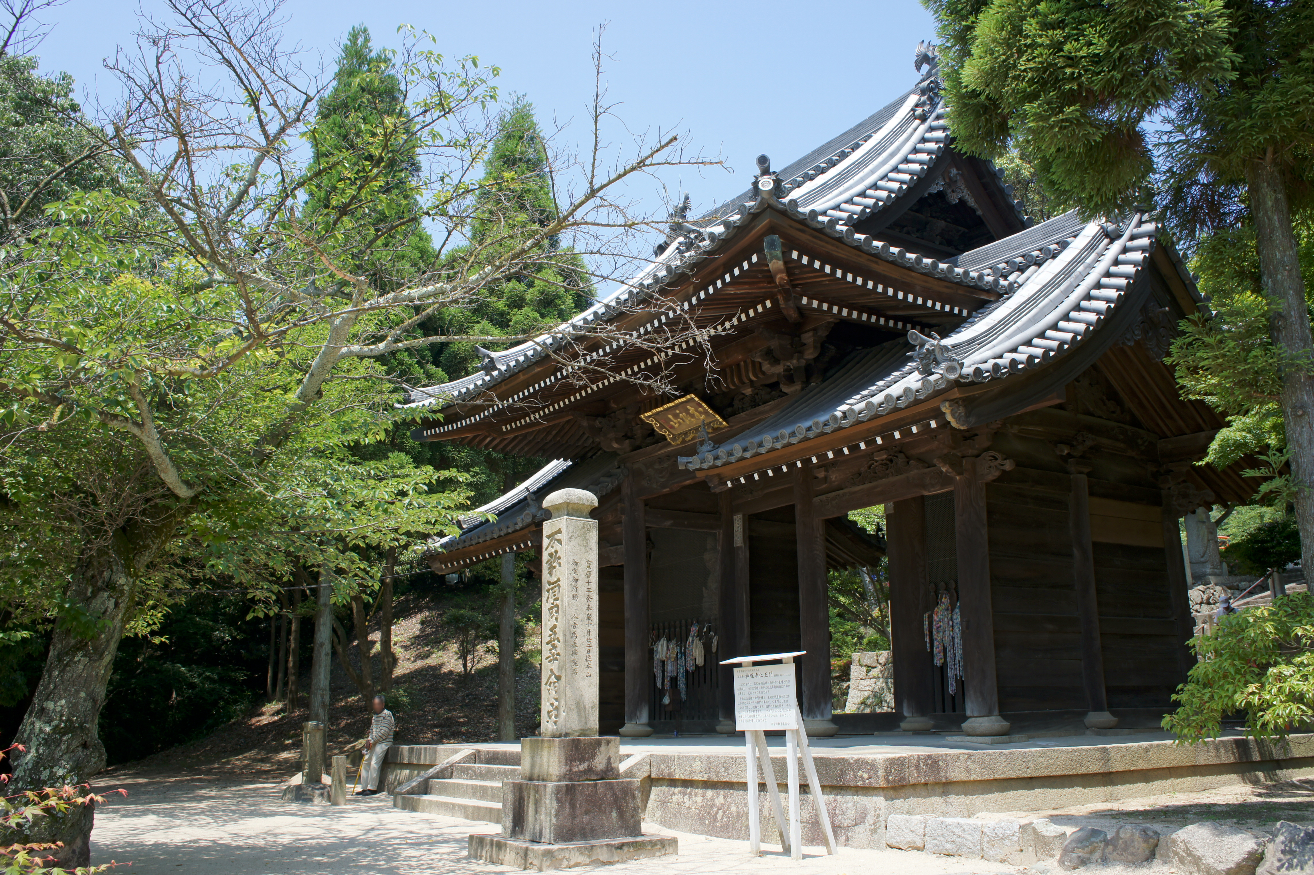 Kannō-ji in Nishinomiya, Hyogo prefecture, Japan.